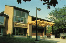 Holland International Living Centre (photo taken by HILC staff for public use, in 2000)